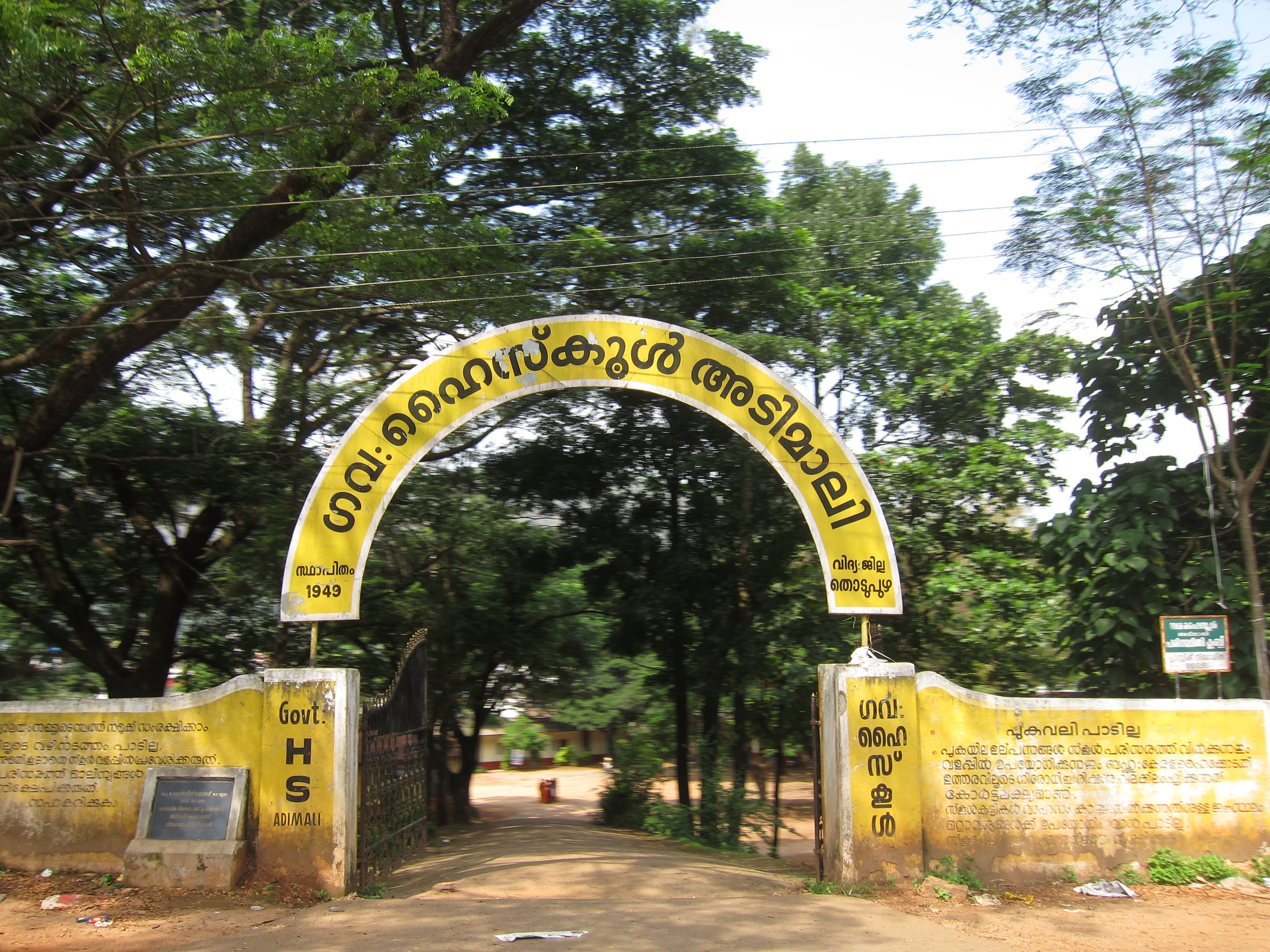 Adimali Govt. High School, Thodupuzha Educational District Munnar District